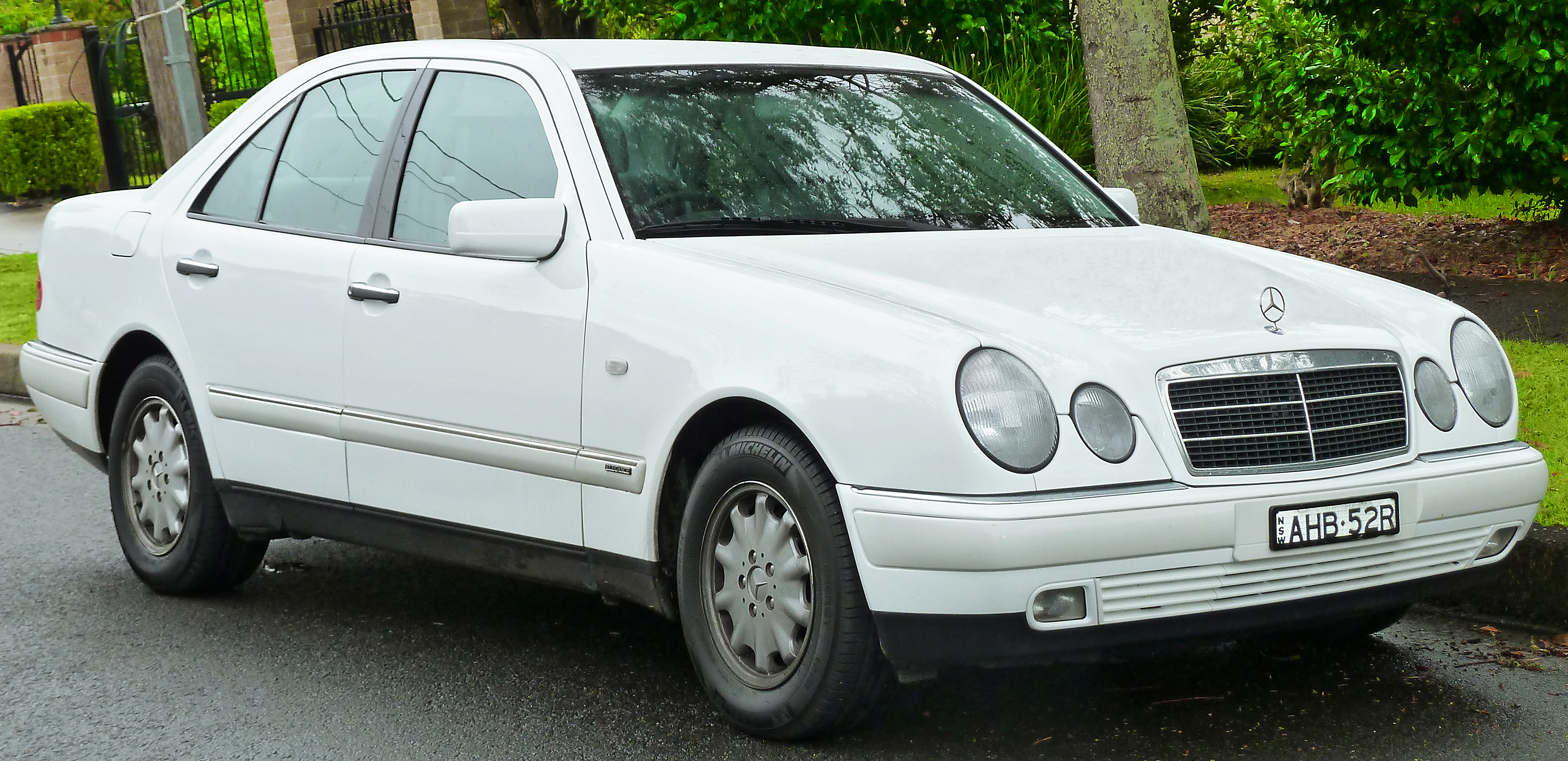 1999 Mercedes-Benz E 240 (W 210) Elegance sedan. Photographed in Roseville, New South Wales, Australia.